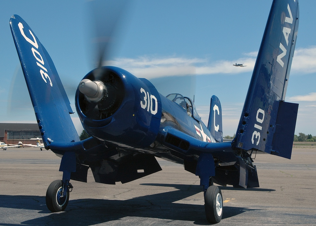 Corsair F4U-4 folding its wings ; Bureau number : 97388 ; Wartime registration : FAH 610 (Honduran Air Force) ; Current civil registration : NX72378 ; Owner : Unknown - formerly owned by Gerald Beck of Wahpeton, North Dakota who died in 2007; Place : "Corsairs Over Connecticut" airshow in Bridgeport, CT